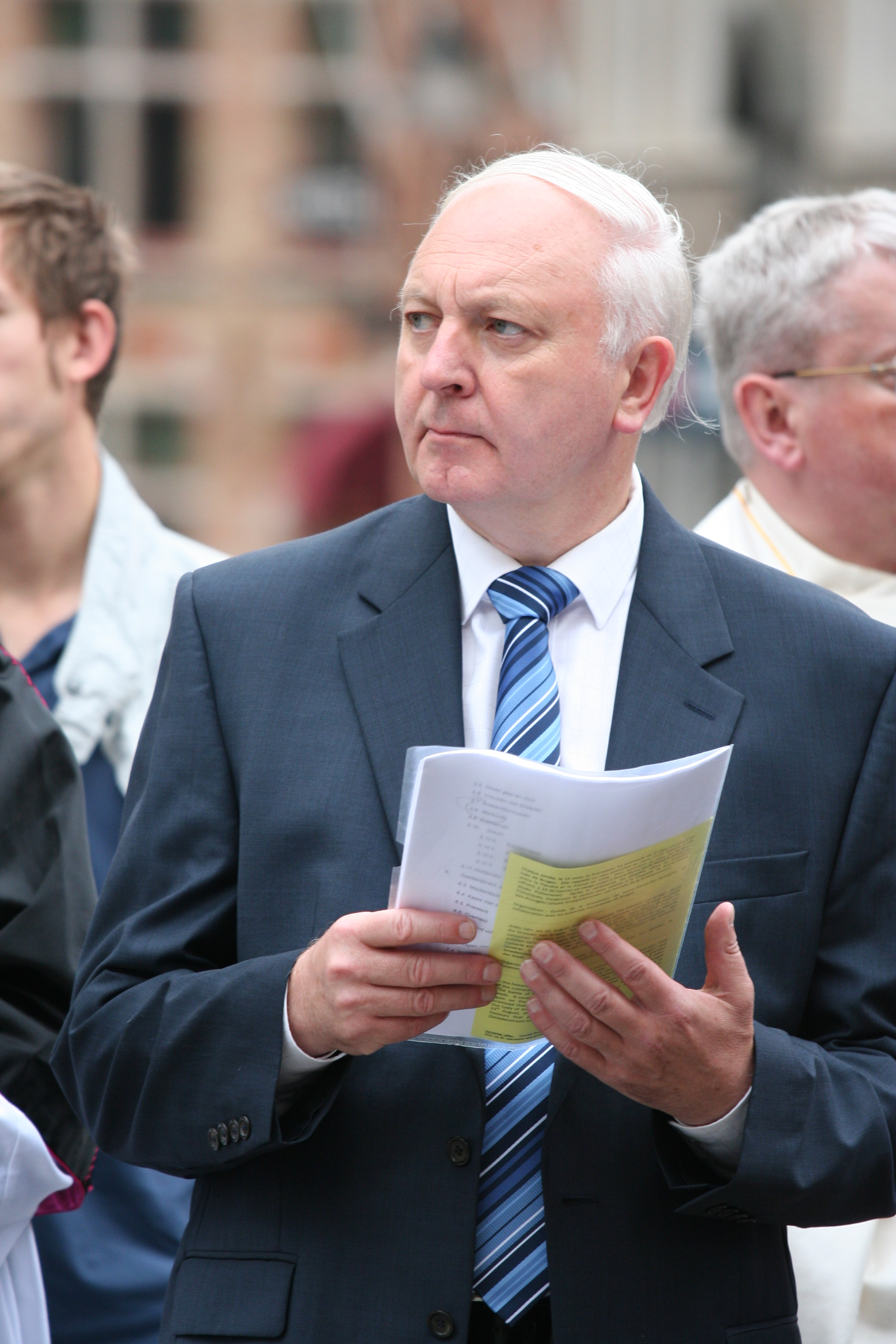 Picture of Jean Luc Meulemeester